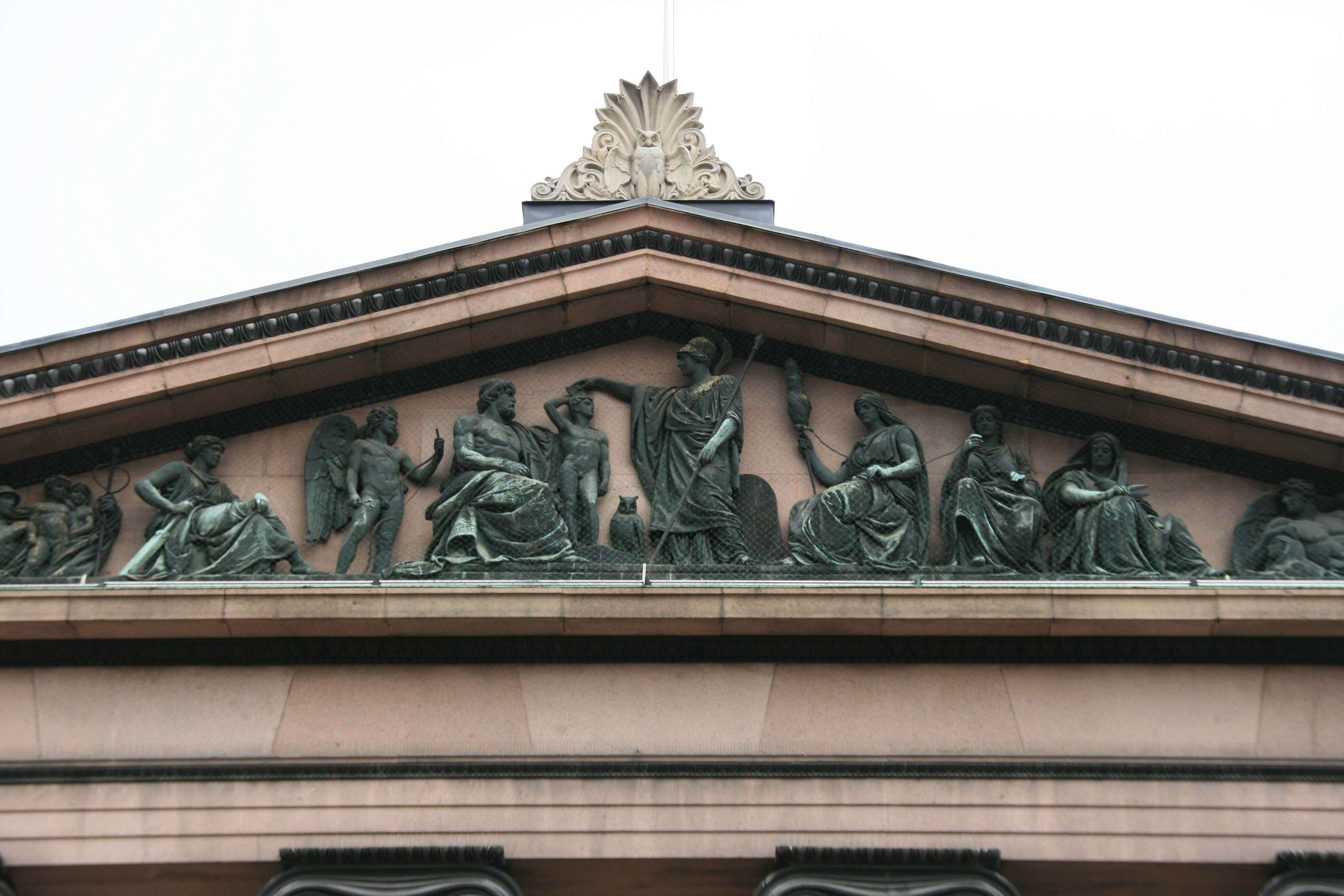 Bronze figure from 1894, Domus Media, University of Oslo. Artist: Mathias Skeibrok.